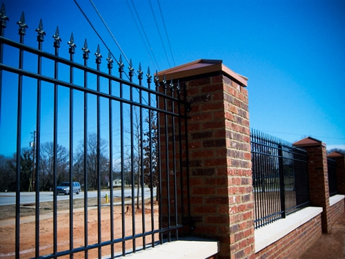 An ornamental iron fence built for the City of Sugar Hill, GA.